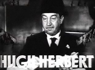 Cropped screenshot of Hugh Herbert from the trailer for the film Dames.